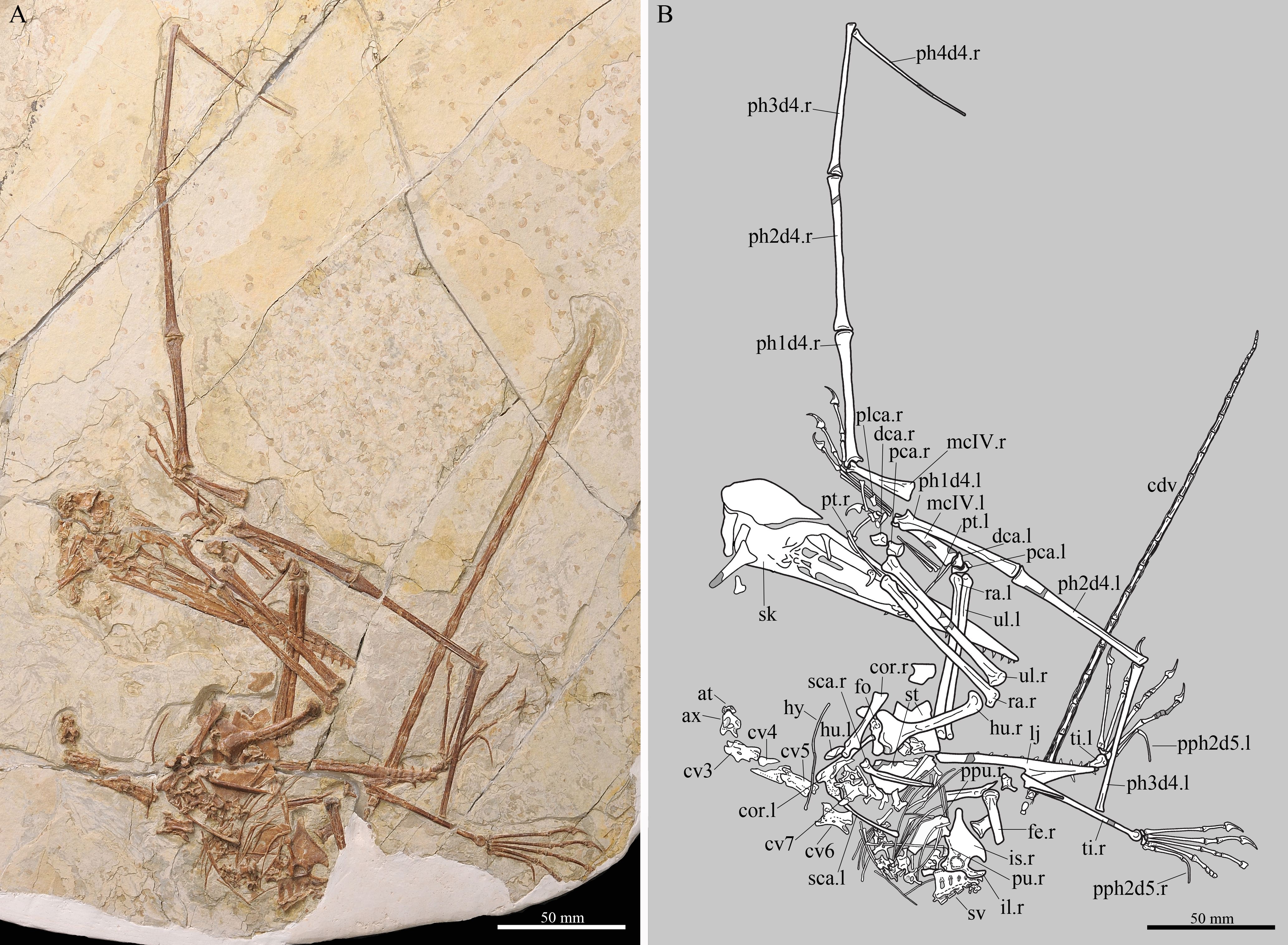 The complete skeleton of Kunpengopterus sinensis (IVPP V 23674). (A) Photo and (B) line drawing with missing portions of the skeleton were preserved as impression in dark grey. Scale bars: 50 mm. Abbreviations: at, atlas; ax, axis; cdv, caudal vertebra; cor, coracoid; cv3–7, third to seventh cervical vertebra; dca, distal carpal series; fe, femur; fo, foramen; hu, humerus; hy, hyoid bone; il, ilium; is, ischium; l, left; mcIV, metacarpal IV; pca, proximal carpal series; ph1–4d4, first to fourth phalange of manual digit IV; plca, proximal lateral carpal; ppu, prepubis; ptd, pteroid; r, right; pu, pubis; ra, radius; sca, scapula; st, sternum; sv, sacral vertebra; ti, tibia; ul, ulna.